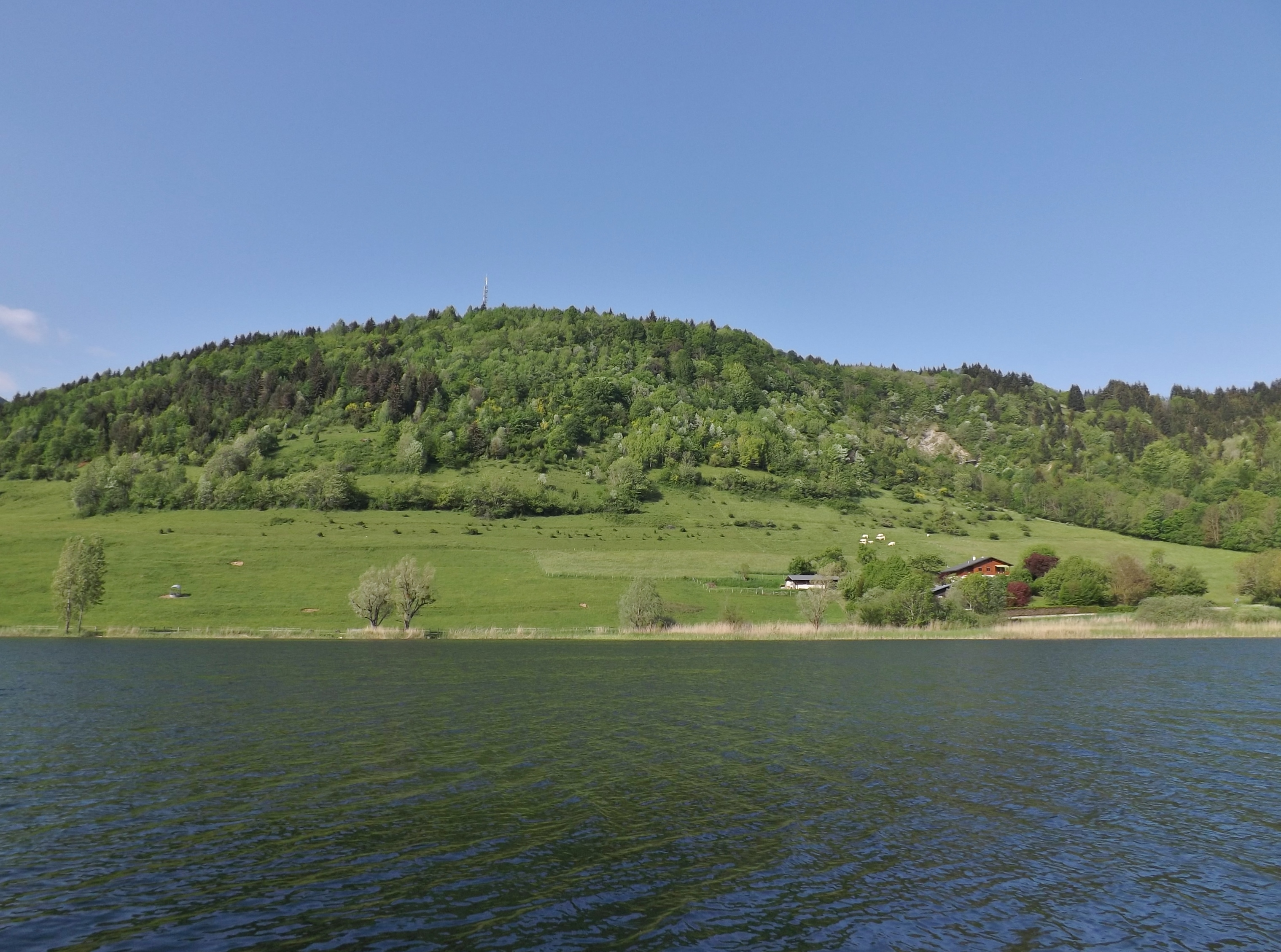 Sight of the lac de la Thuile lake and its north-eastern side (forward), in the Bauges mountains, near Chambéry in Savoie, France.